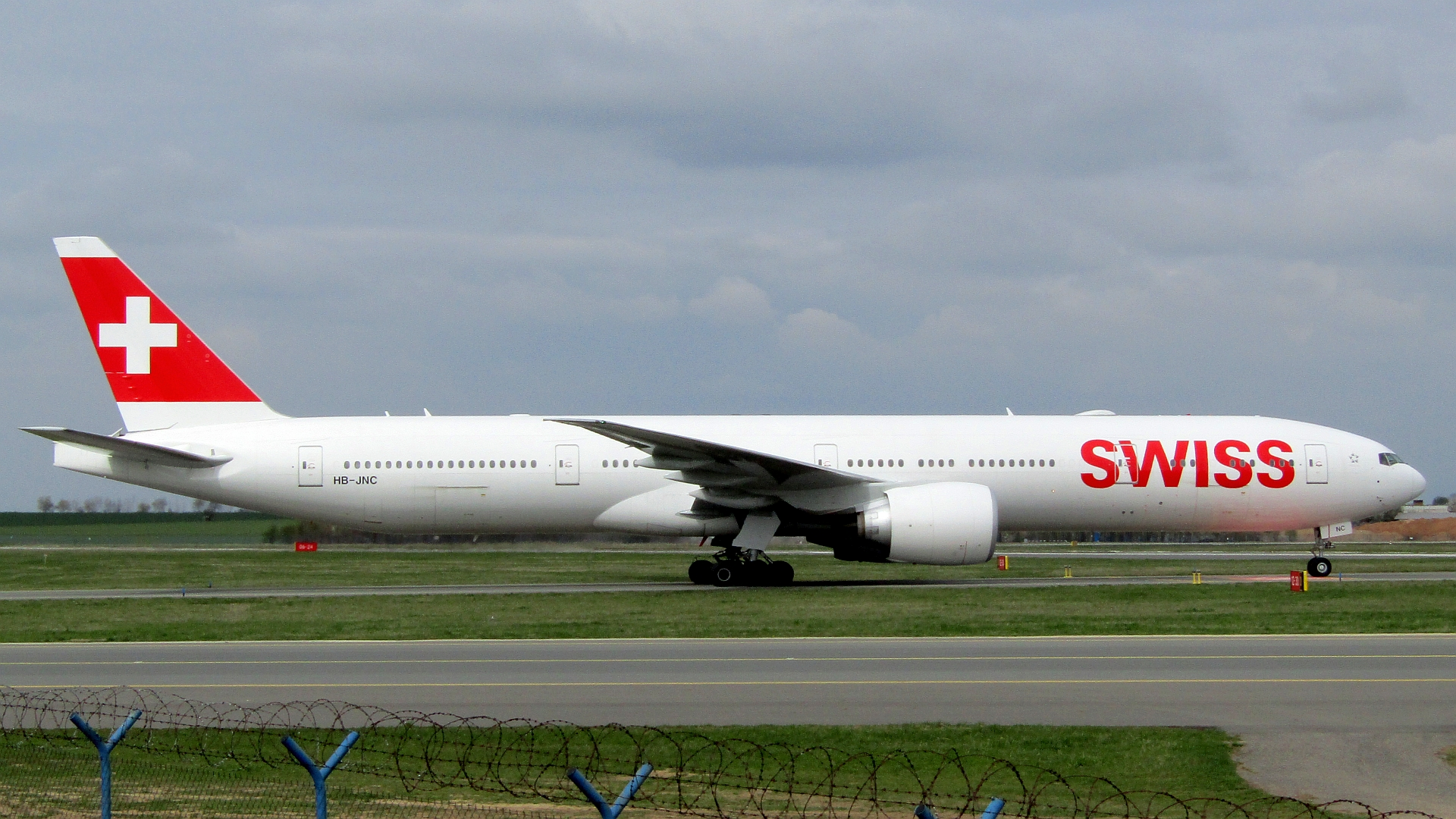 Boeing 777-300, Swiss, PRG